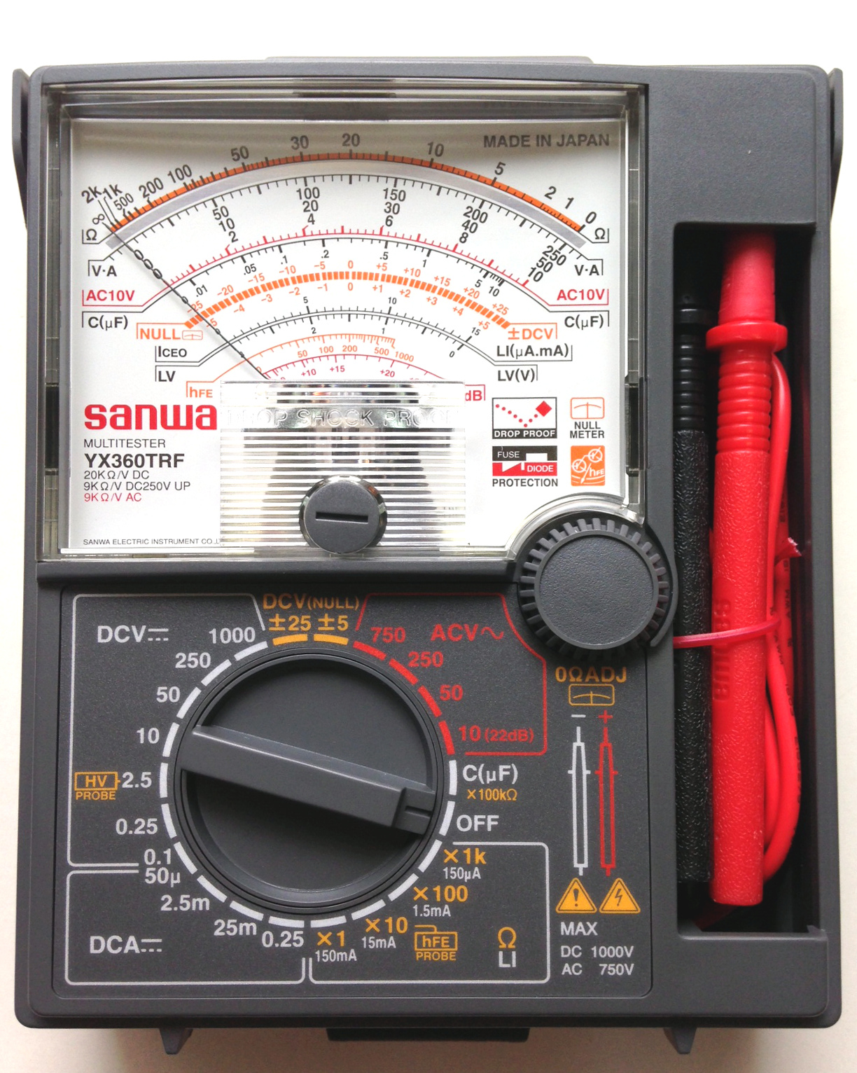 YX360TRF (Sanwa Analog Multimeters or Multimeters) / Made In Japan / Drop proof mutitester.